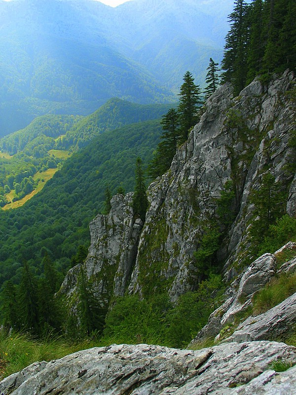 Piatra Galbenei, Apuseni Mountains, Bihor county, Romania